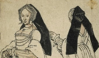 Detail of a drawing showing a box-back gable hood c. 1535.